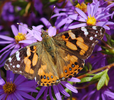 The Australian painted lady butterfly (Vanessa kershawi), photographed in Tasmania, Australia.